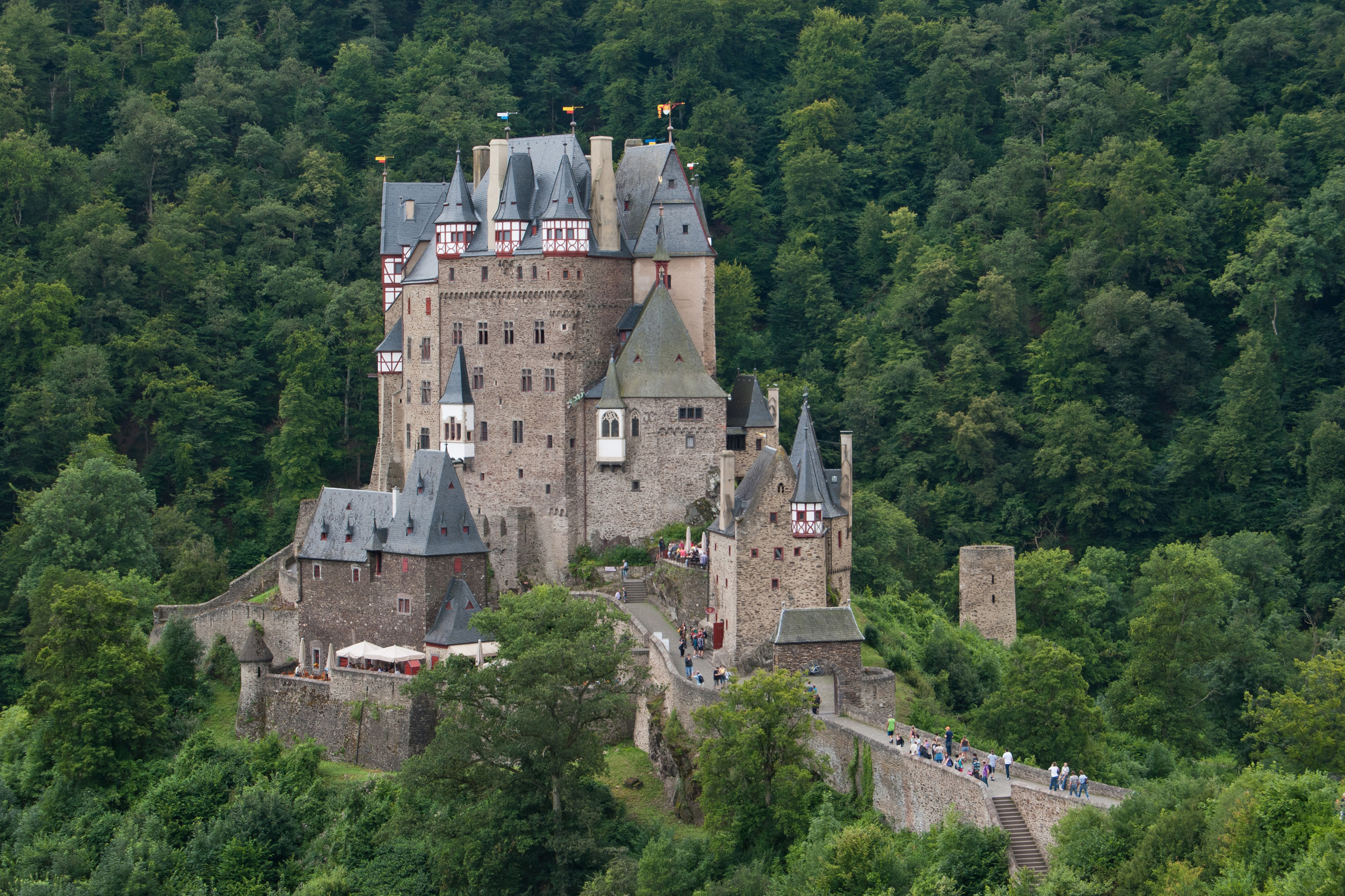 Wierschem (Rhineland-Palatinate, Germany) – Eltz Castle This is a photograph of an architectural monument.It is on the list of cultural monuments of Wierschem This photograph was taken with a Nikon D3000